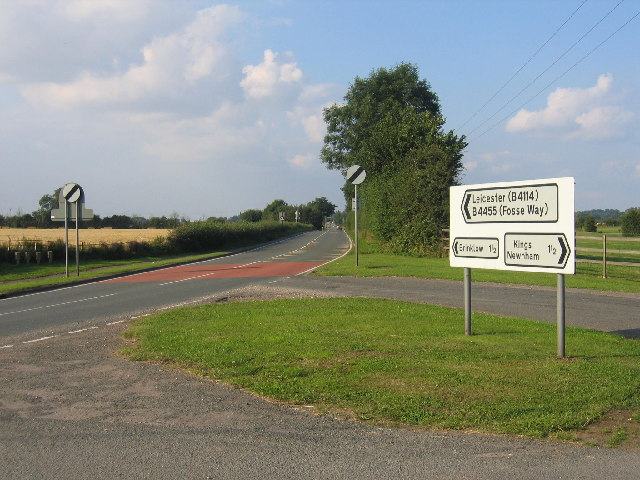 Fosse Way - Bretford. Looking NNE along the route of this old roman road. The modern swings left here through the village of Bretford and crosses over the River Avon.